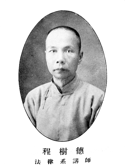 Cheng Shude (1877－1944)